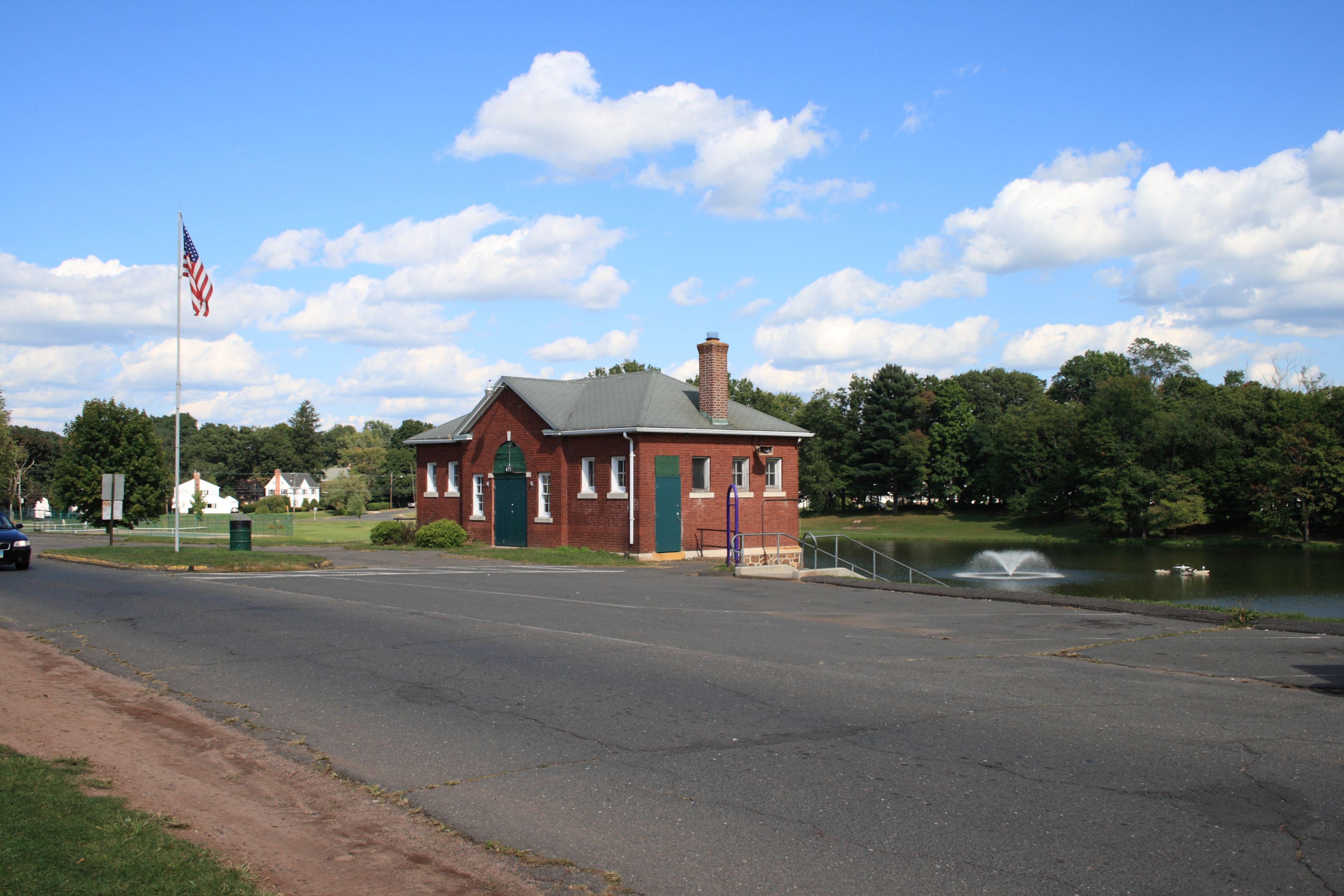 Stanley Quarter Park, including Stanley Quarter Pond, in New Britain, Connecticut - OpenStreetMap(Info)